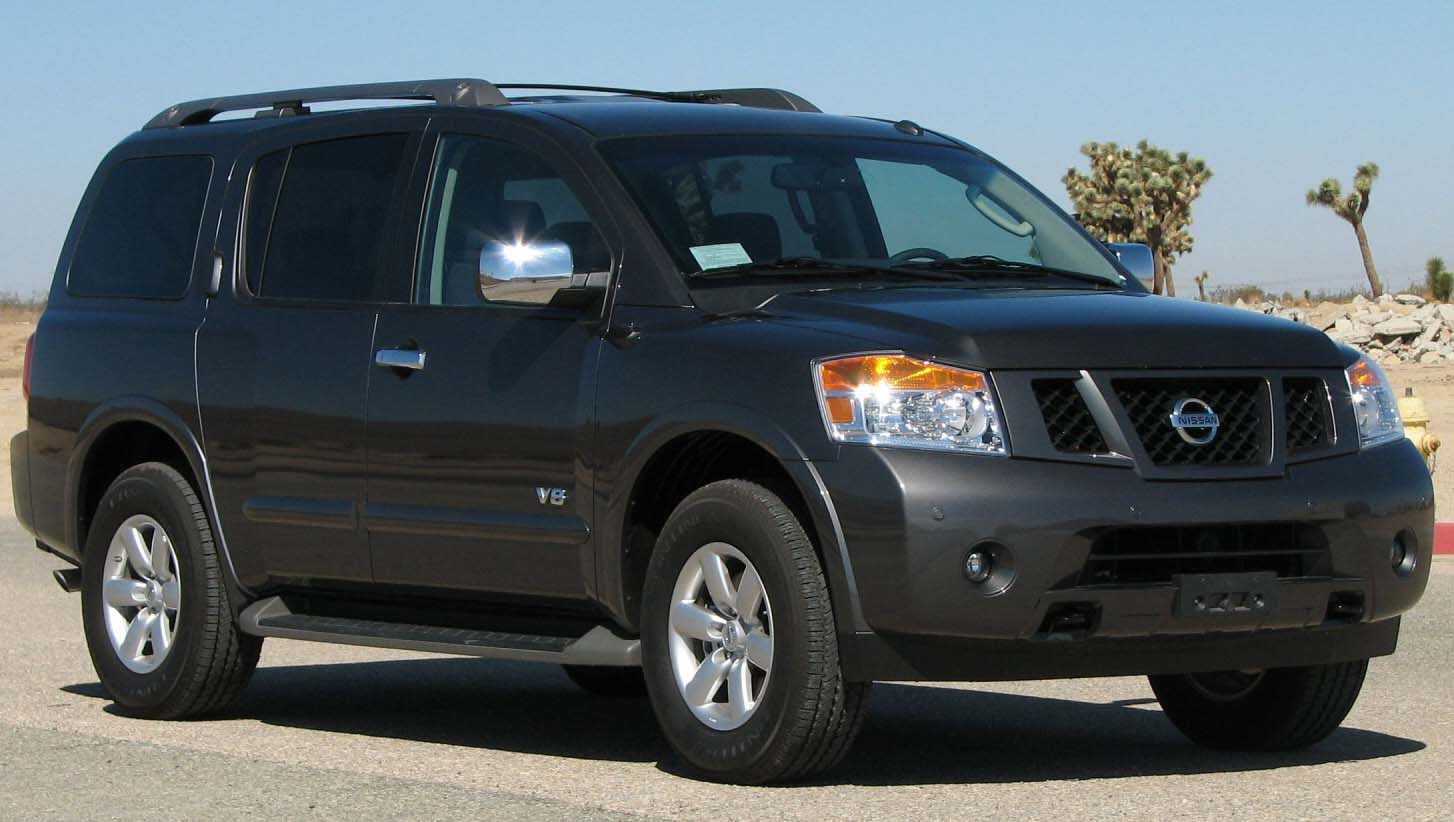 2008 Nissan Armada photographed in USA.